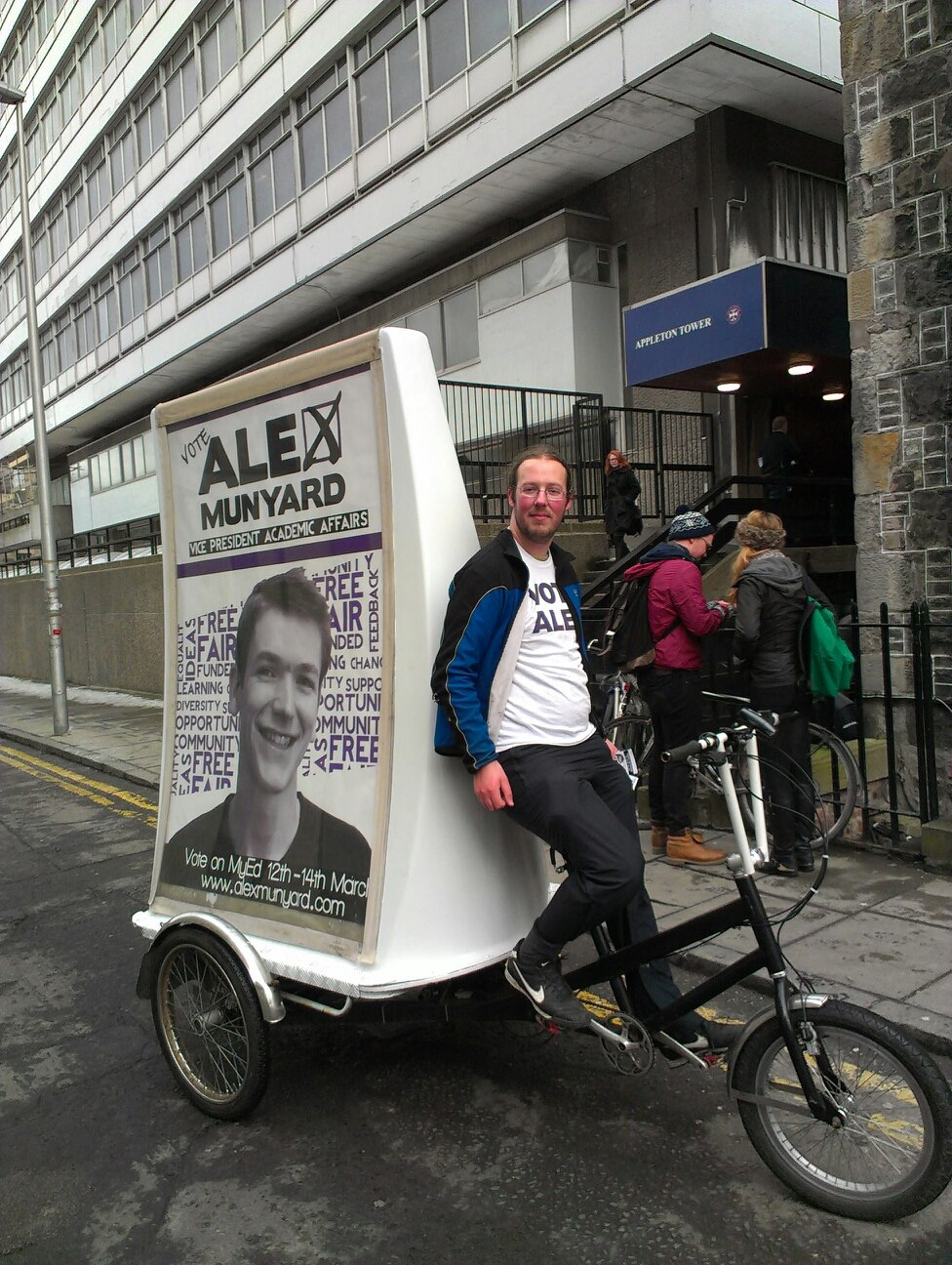 A tricycle advertising billboard, displaying a candidate during an Edinburgh University Students' Association (EUSA) election.